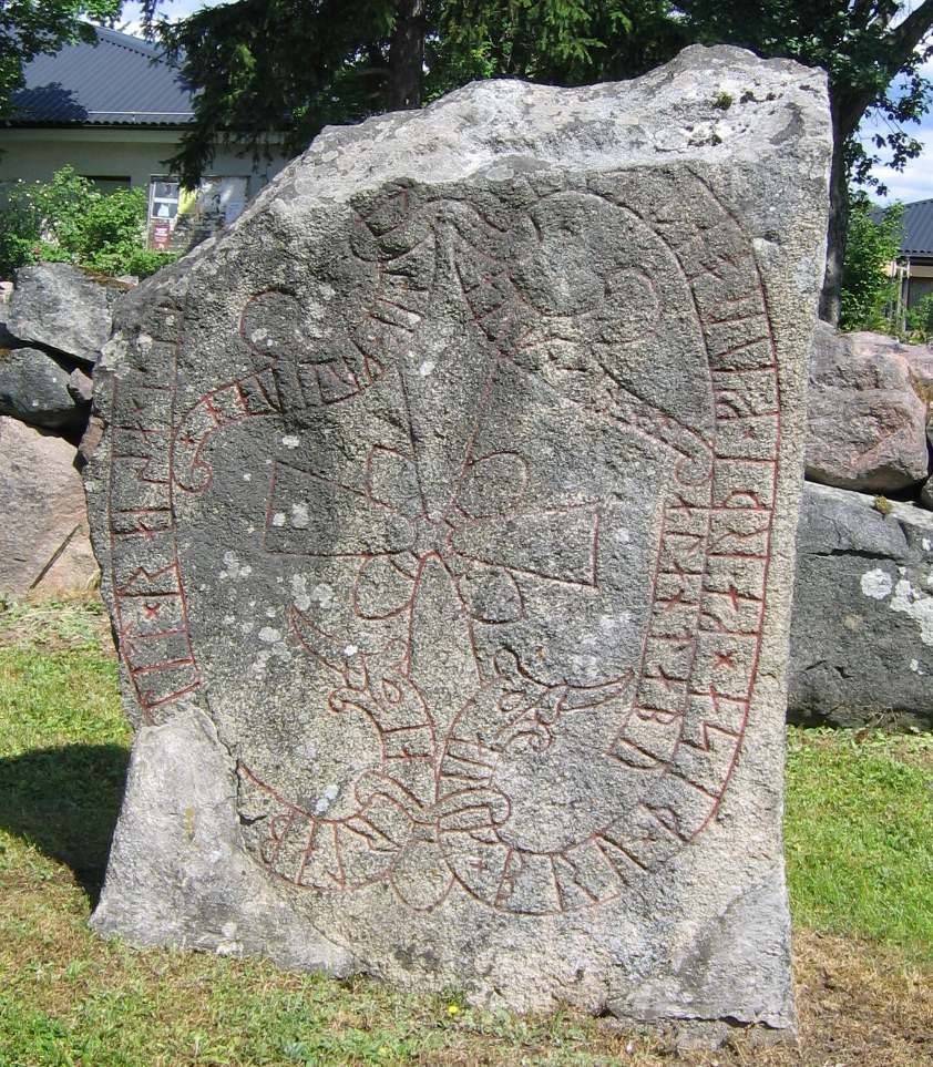 Just another Jarlabanke runestone, U 261 at Fresta kyrka.